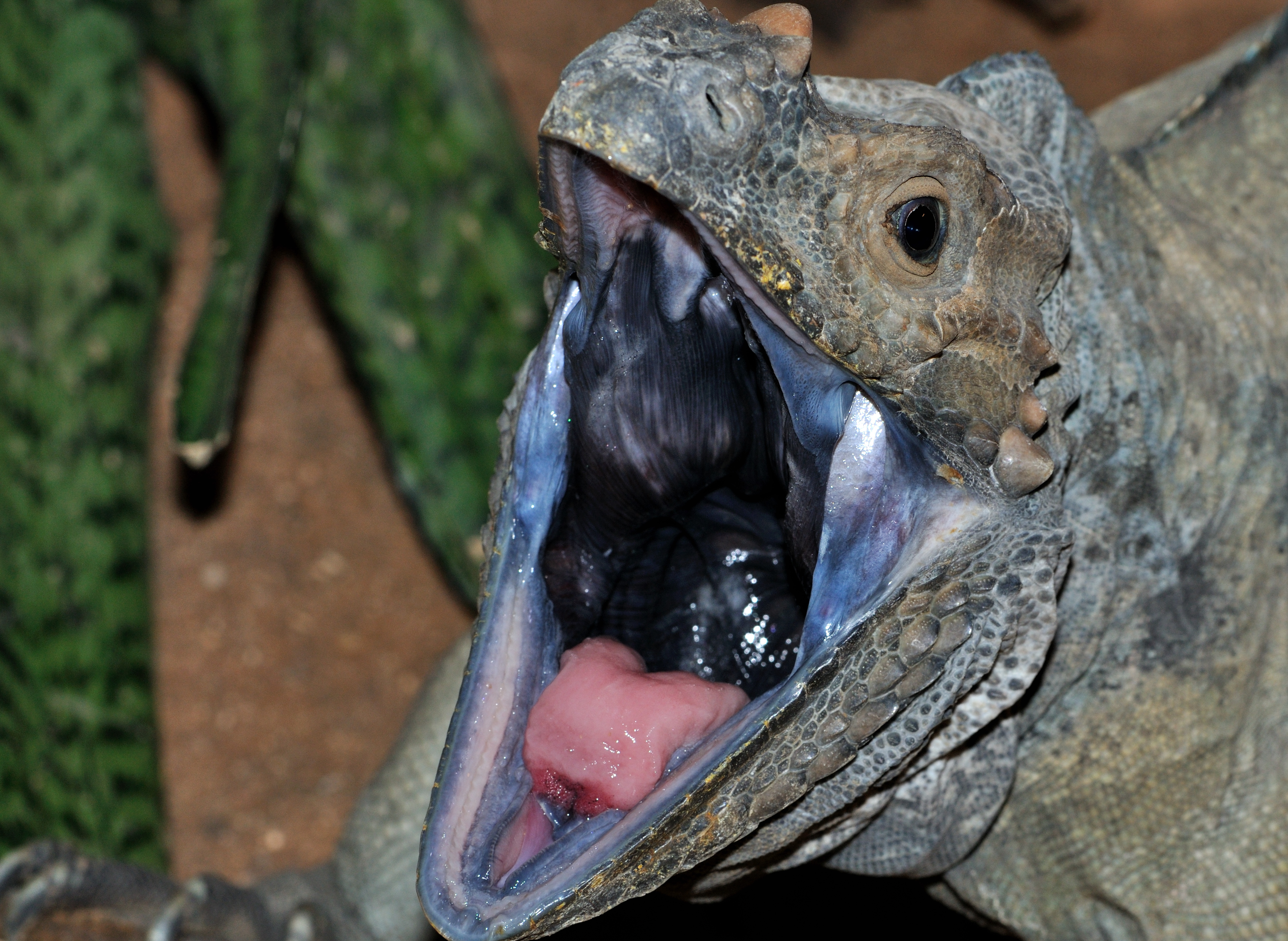 Rhinoceros Iguana (Cyclura cornuta) in the Tierpark Hellabrunn, Munich, Germany.